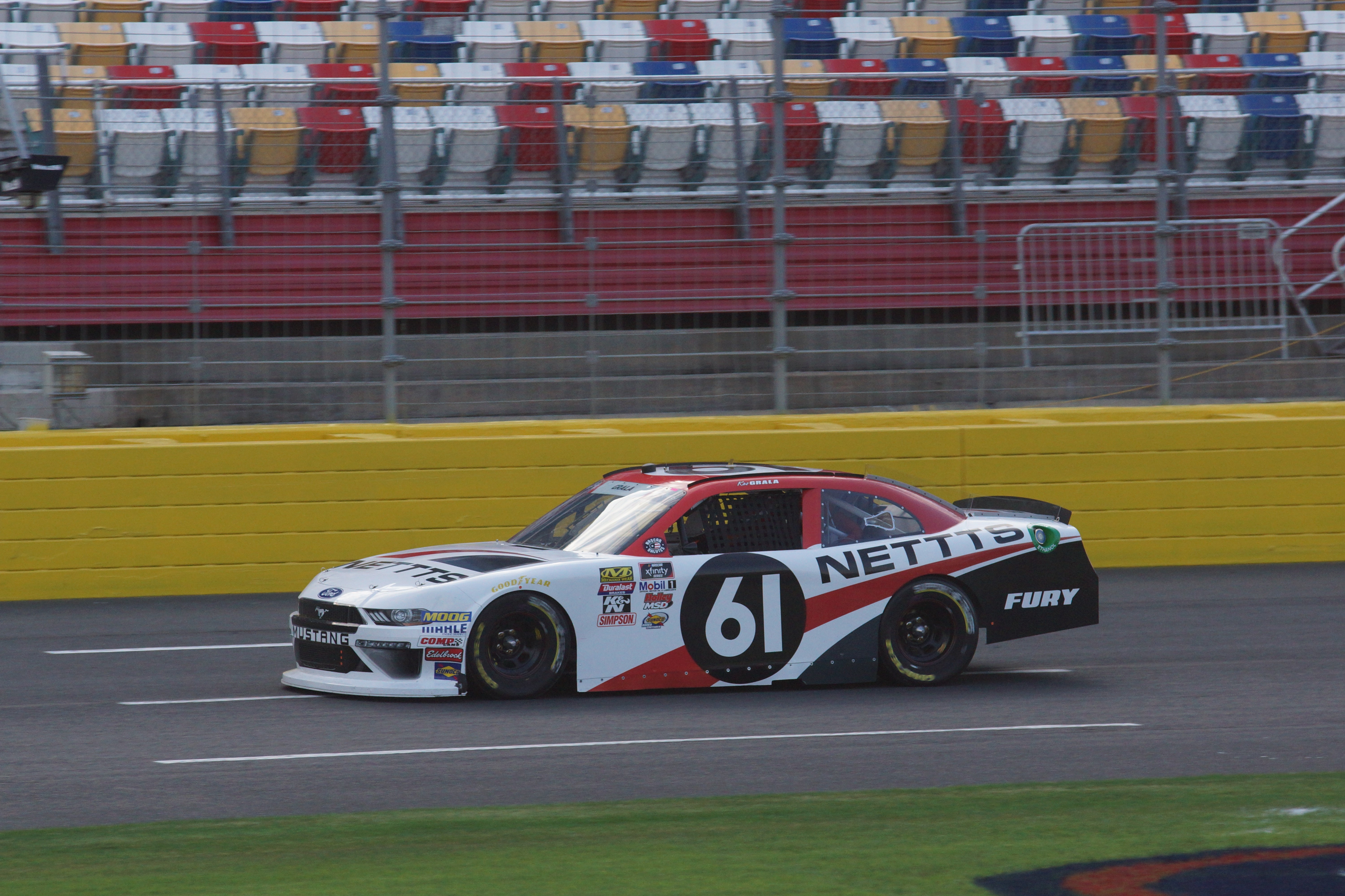 No. 61 Ford Mustang on track at Charlotte Motor Speedway. Driven by Kaz Grala during practice.